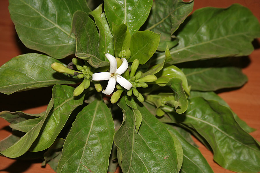 Morinda citrifolia - Great morinda, Indian mulberry, Beach mulberry, Tahitian Noni, Mengkudu, cheese fruit or Ach in Guntur, Andhra Pradesh, India.